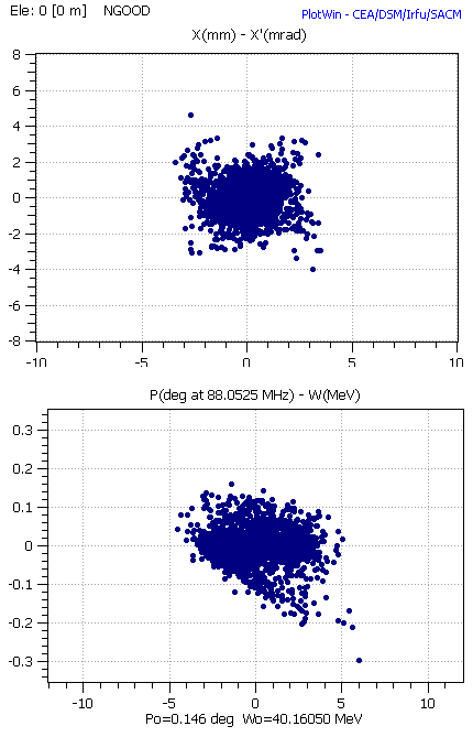 Beam represented by macro particles. Vizualisation in two 2D sub-phase spaces.